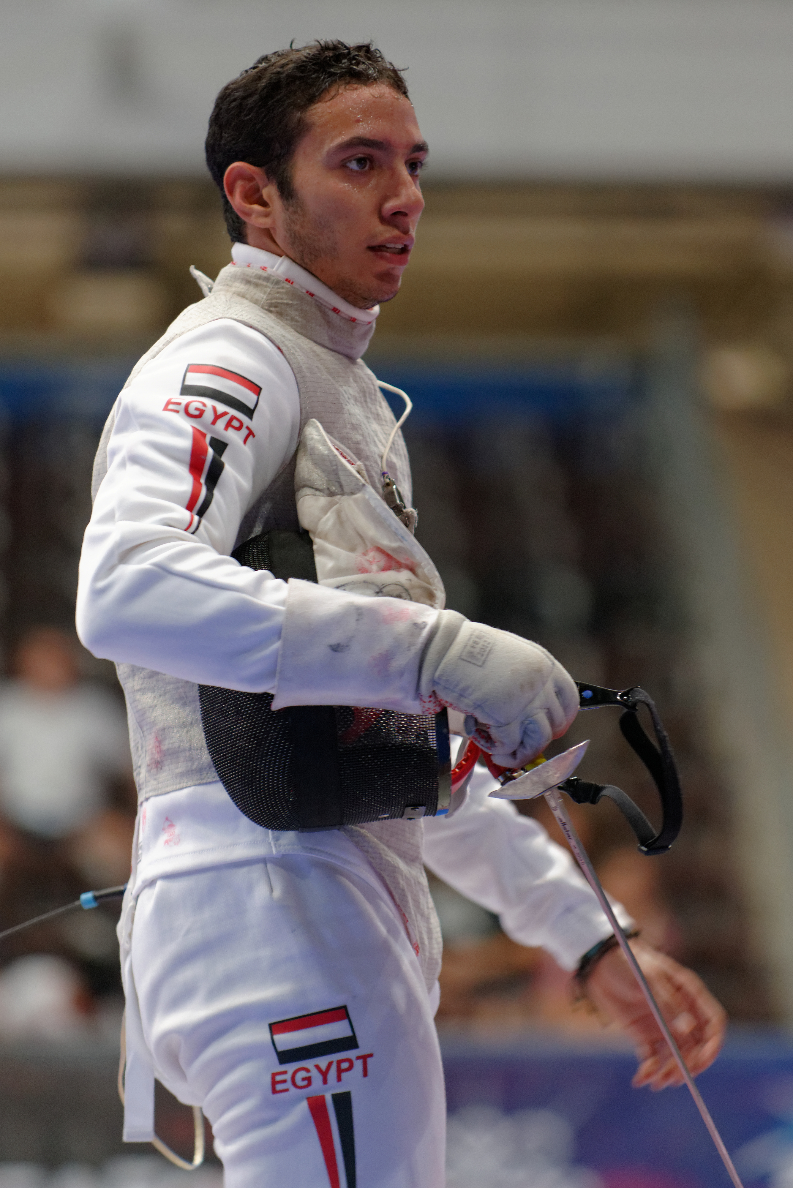 Egypt's Tarek Ayad at the men's foil event of the 2013 World Fencing Championships 2013 at Syma Hall in Budapest on 9 August 2013.